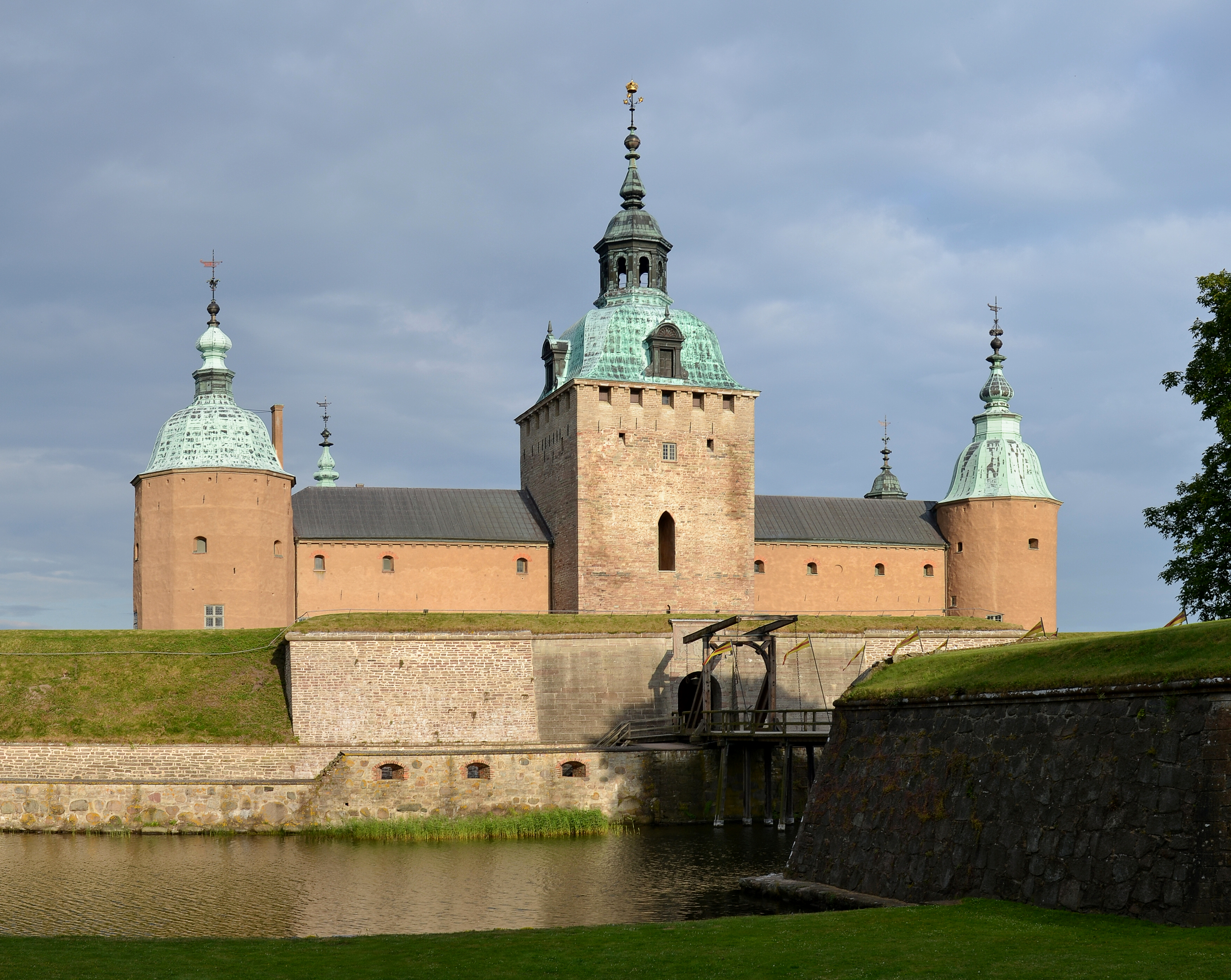 Kalmar Castle, Sweden